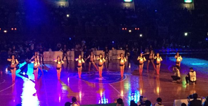 2017/9/29 Yokohama B-COR game